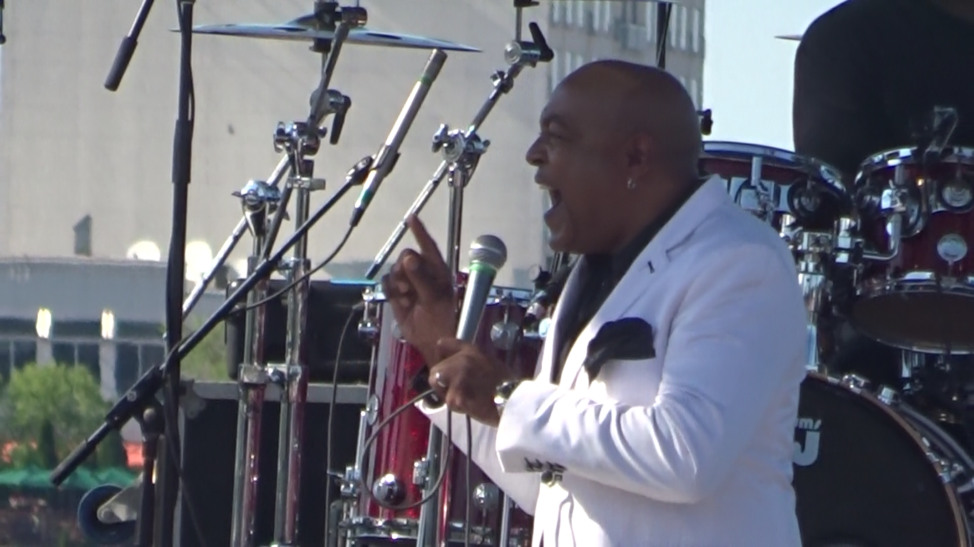 Peabo Bryson at the Soul Food Festival in Louisville, KY 2016